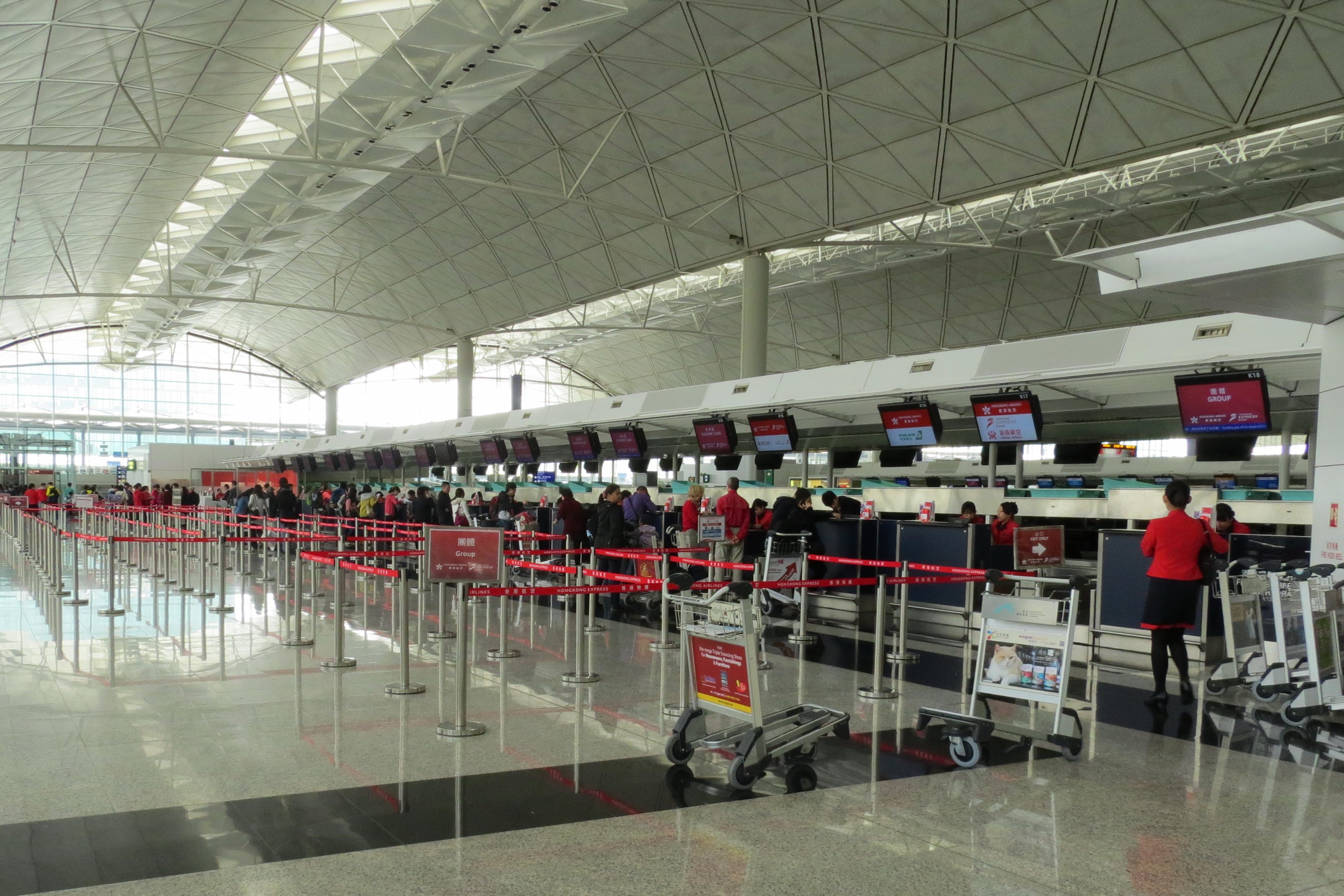 HongKong Airlines check-in counter area (Aisle K, Level 7, Terminal 1) at the Hong Kong International Airport, Hong Kong.